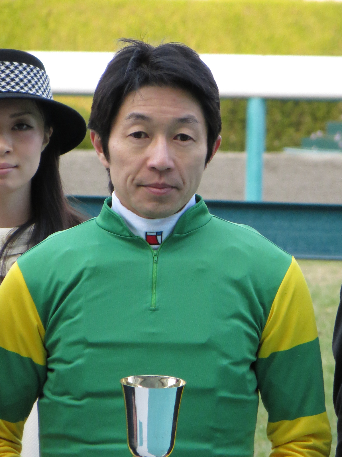 Yutaka Take in 2012